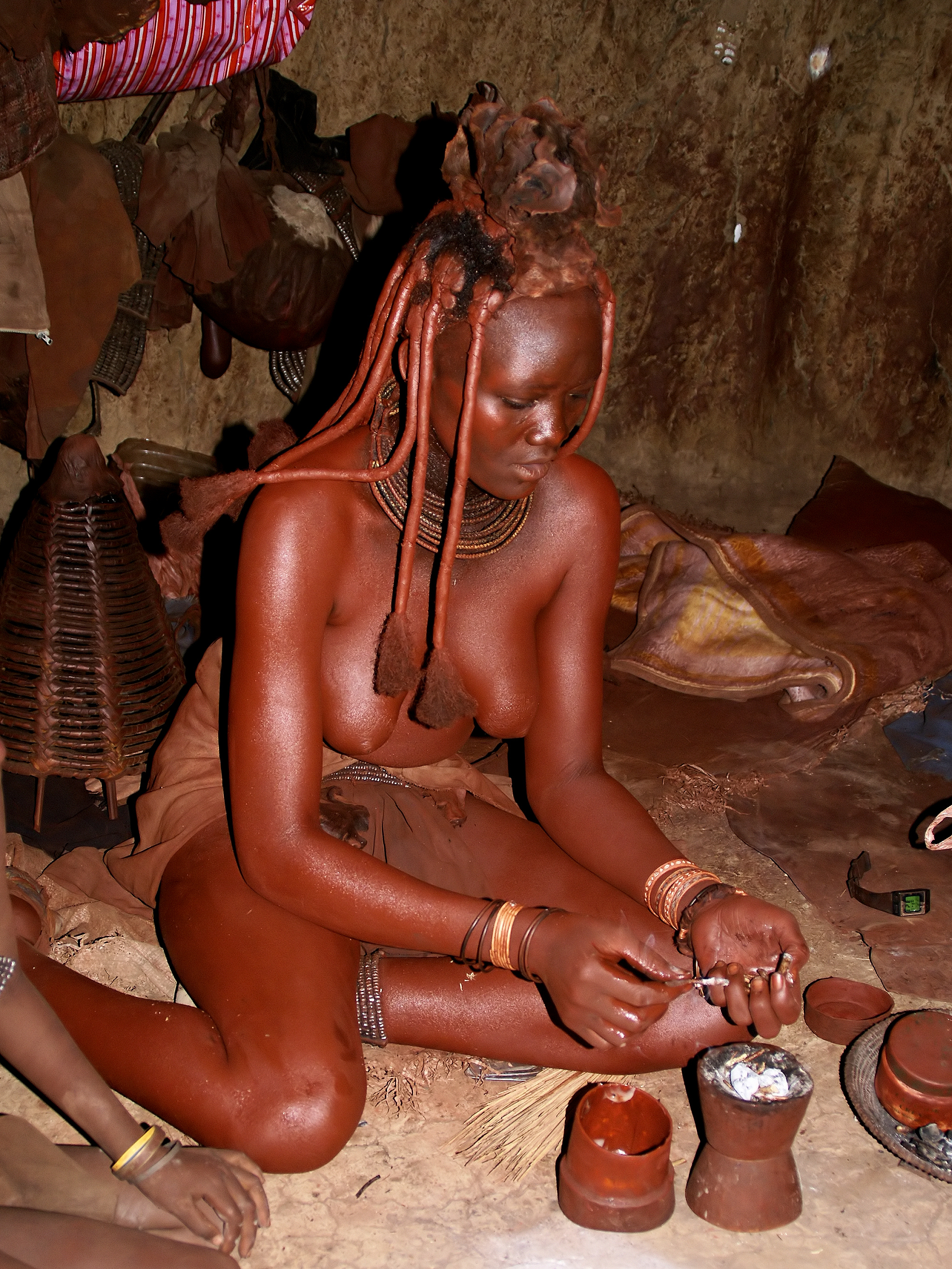 Himba lady preparing deodorant. She uses smoke from smouldering specific herbs, plants and aromatic resins to cleanse and perfume herself.This scene was taken inside her hut, in a village about 15 km north of Opuwo, Namibia.